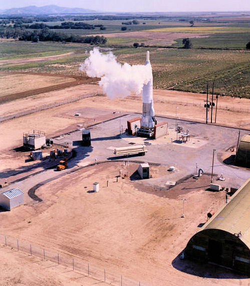 Convair SM-65F Atlas 56 577 SMS Site 11 Willow OK